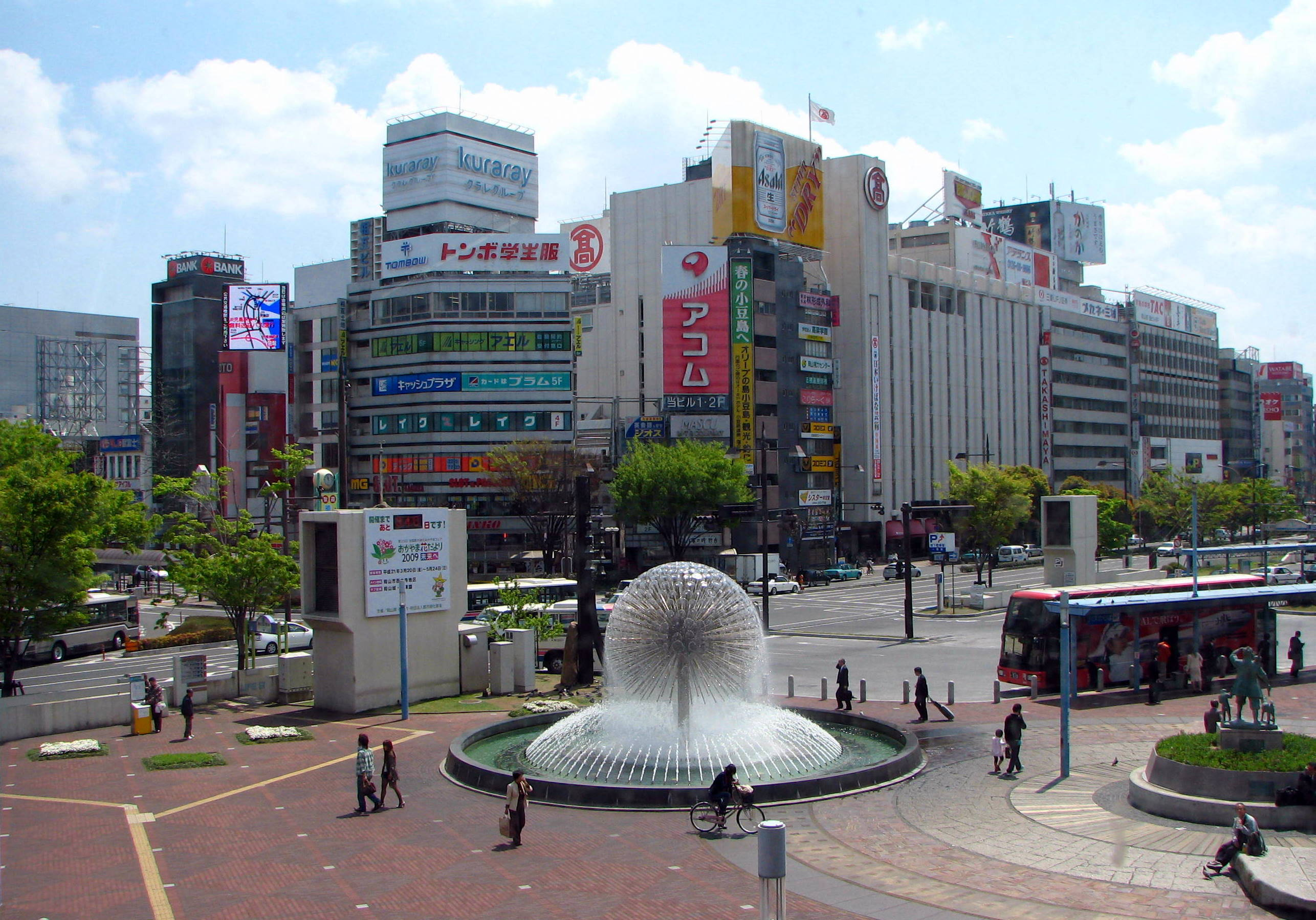 Okayama City in front of Okayama Station, Okayama Prefecture, Japan